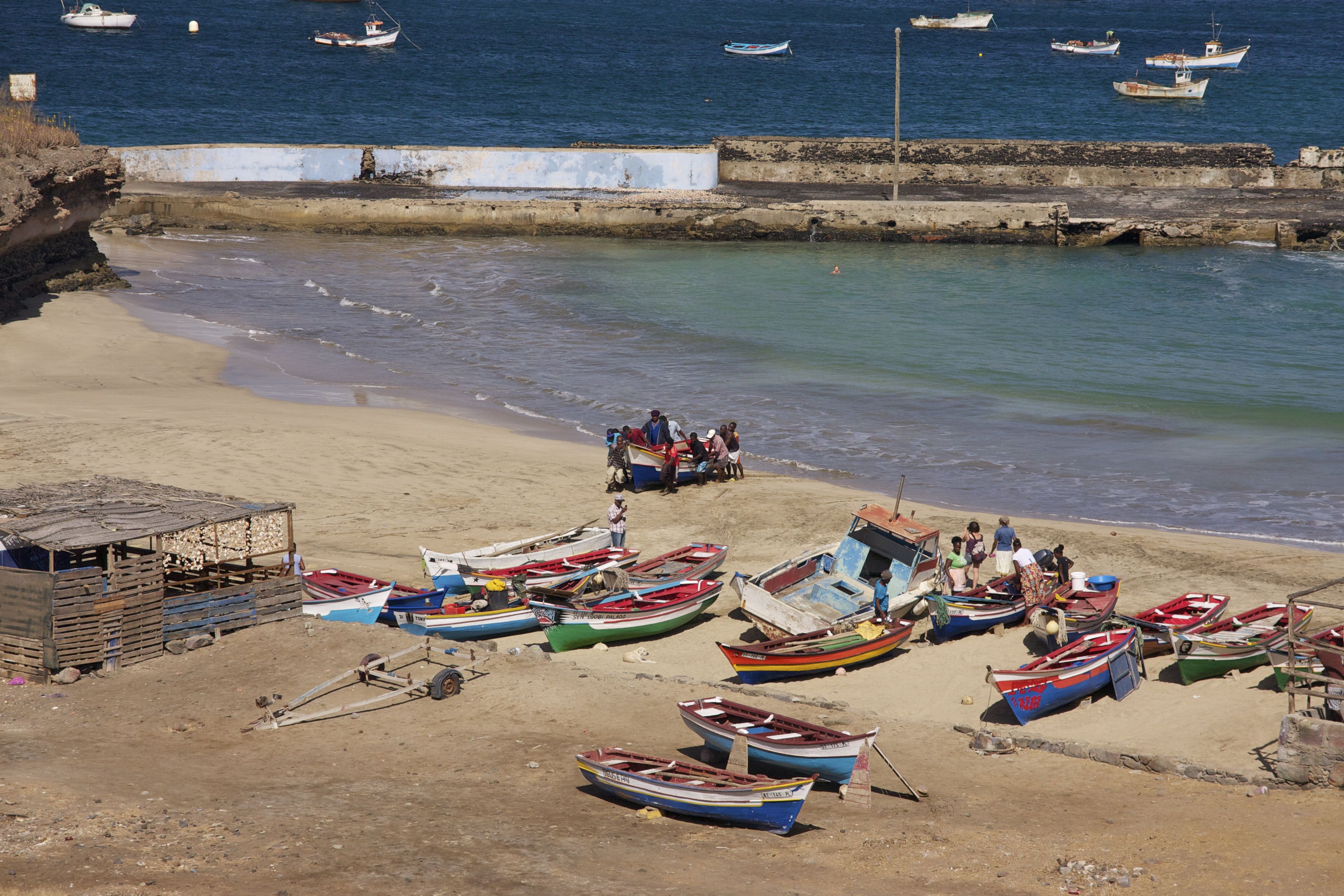 This is an image with the theme "Africa on the Move or Transport" from: Cape Verde